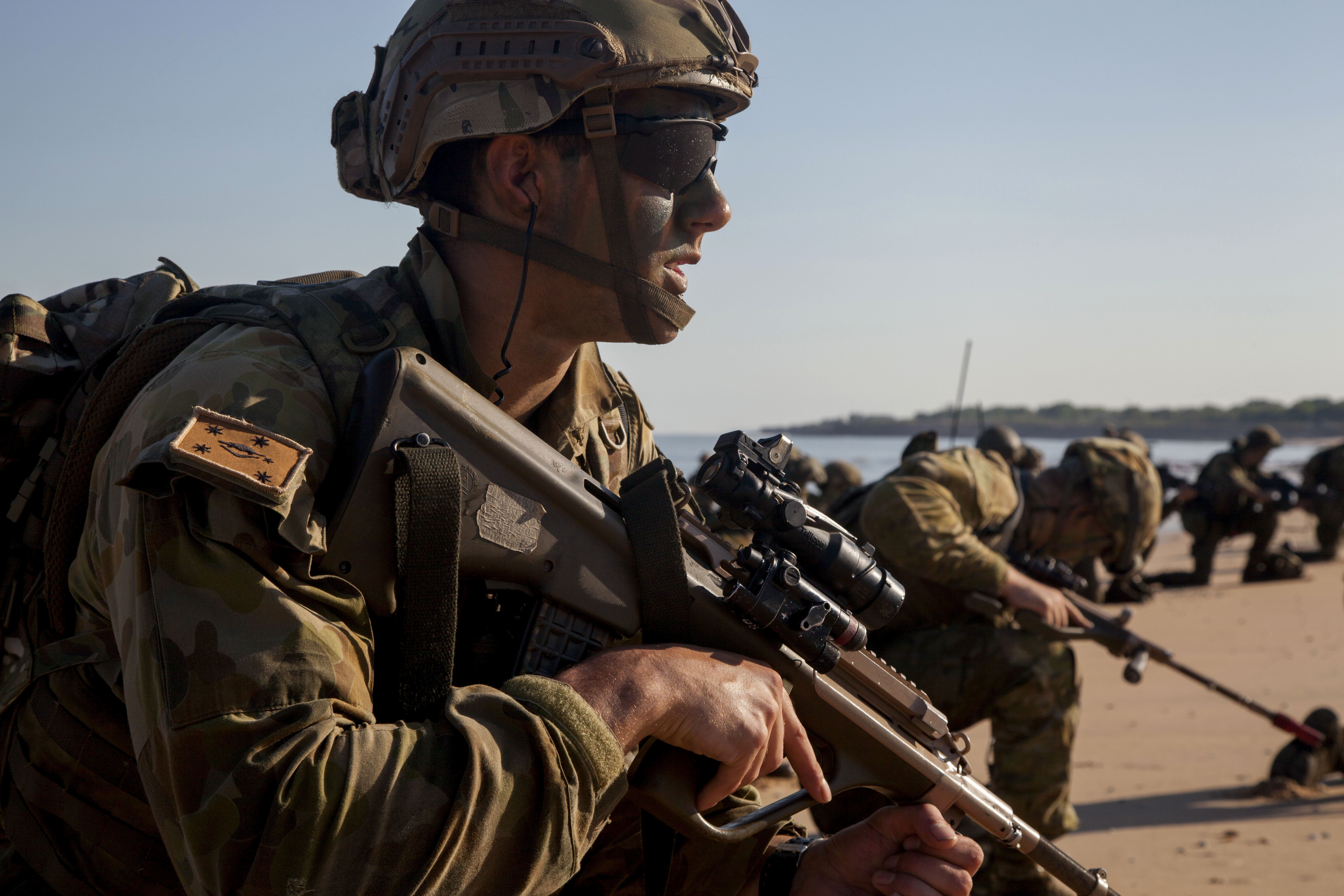 Australian soldiers from the 2nd Battalion, Royal Australian Regiment execute a security halt on the beach as part of an amphibious assault utilizing Combat Rubber Reconnaissance Craft at Fog Bay during exercise Talisman Sabre 15, in the Northern Territory, Australia, July 11.